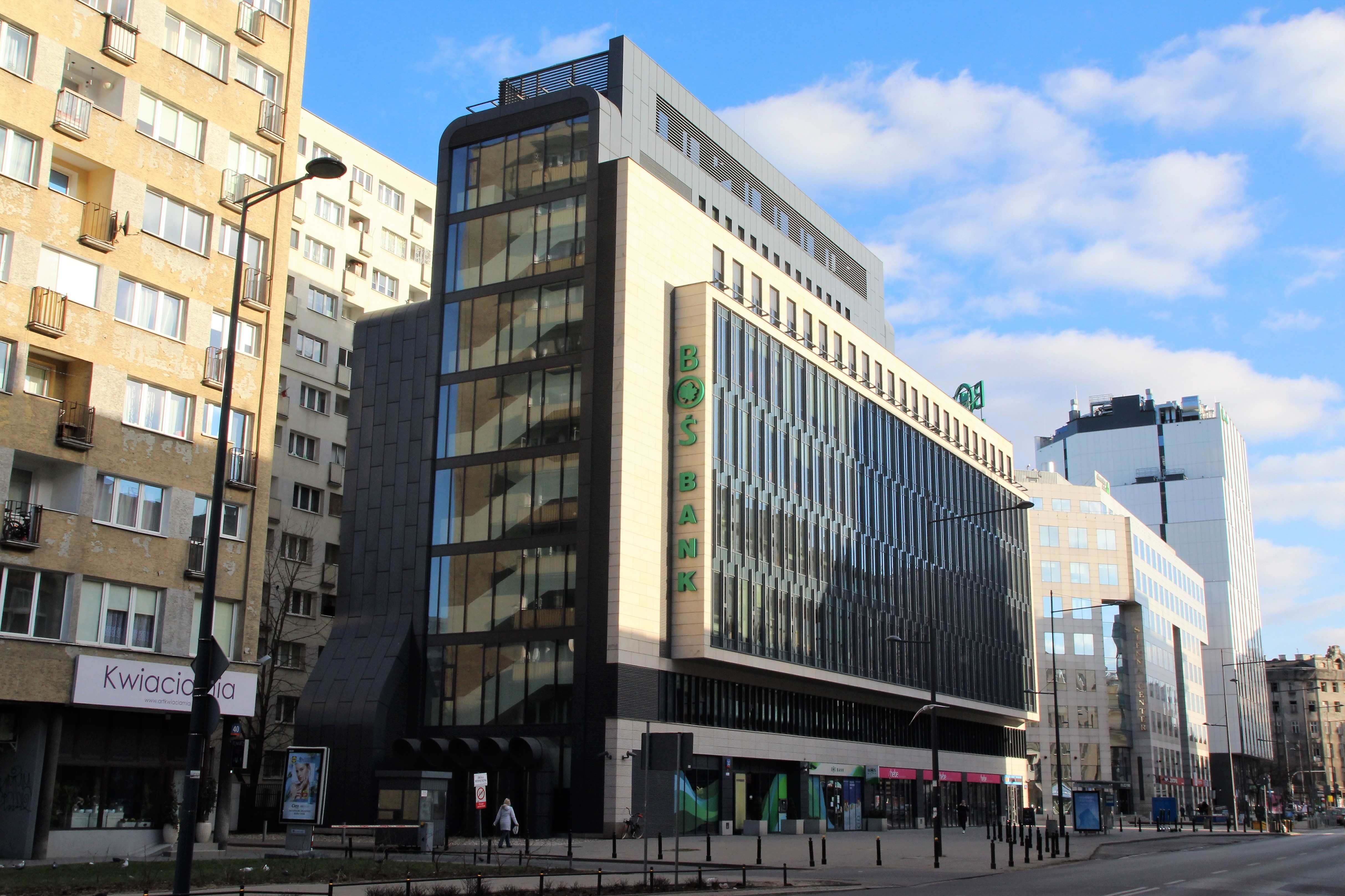 BOS Bank, Warsaw, Żelazna